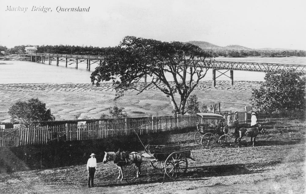 Mackay Bridge over the Pioneer River, Mackay, ca. 1907 Mackay Bridge (also known as the Sydney Street Bridge and Pioneer Bridge) photographed in 1907. The bridge was washed away during the 1918 cyclone. A couple of horsedrawn vehicles and pedestrians are travelling along the dirt road in the foreground of the image. Pioneer River appears to be at low tide. Copied from a postcard which was stamped 18 March 1907.